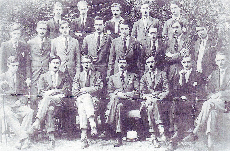 The Uffizi Society at Oxford c. 1820